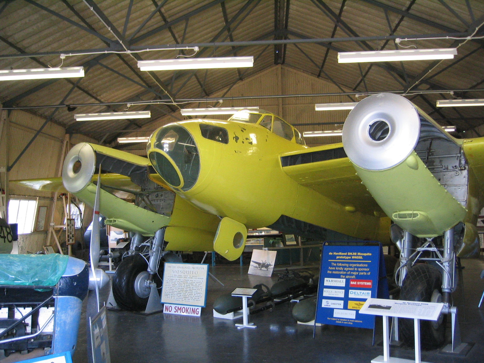 The first prototype to fly (E-0234 later W4050) being restored at the de Havillard Aircraft Heritage Centre near St Albans.